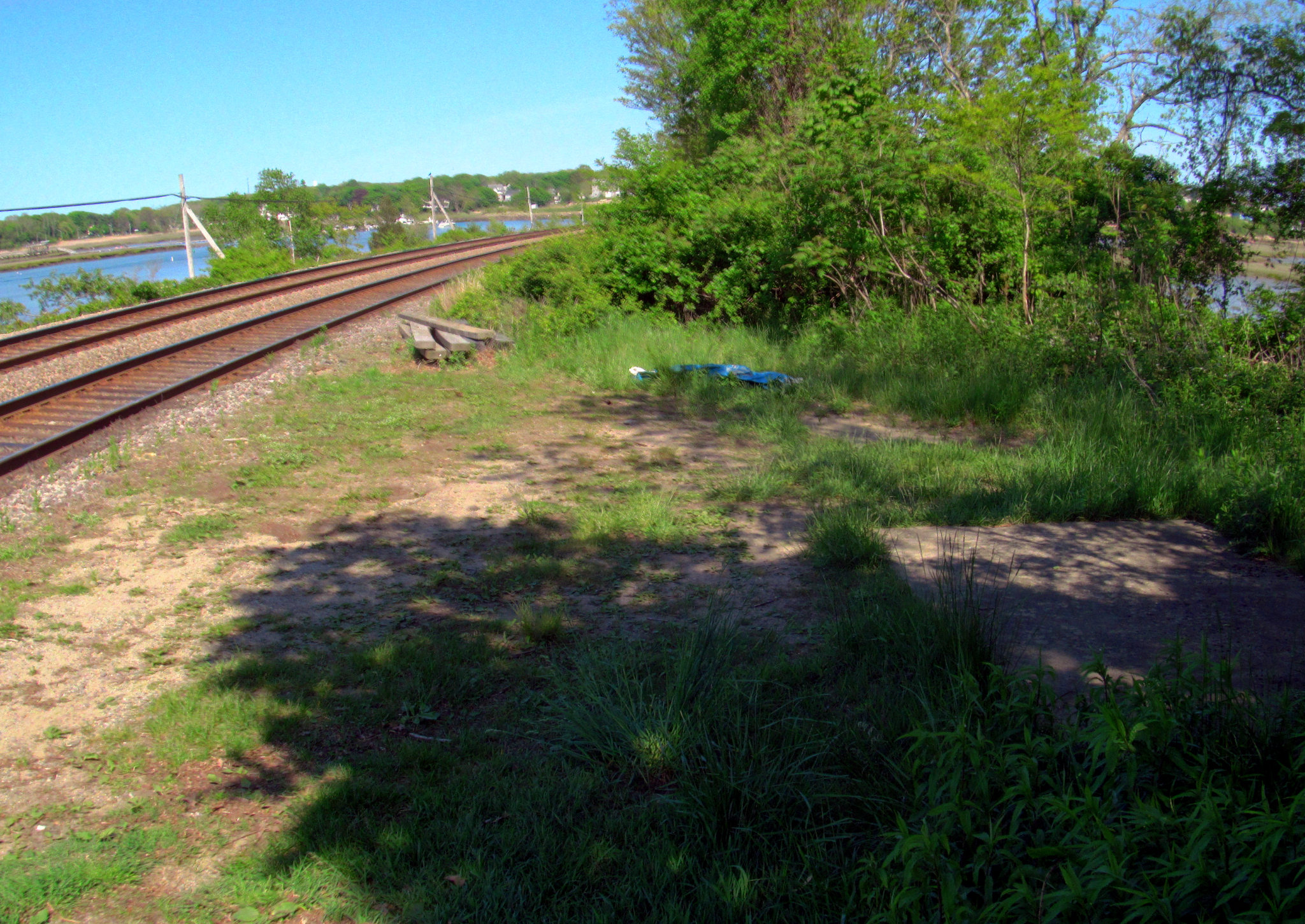 Remains of Harbor station in May 2012, facing outbound. The concrete shelter base is at right.